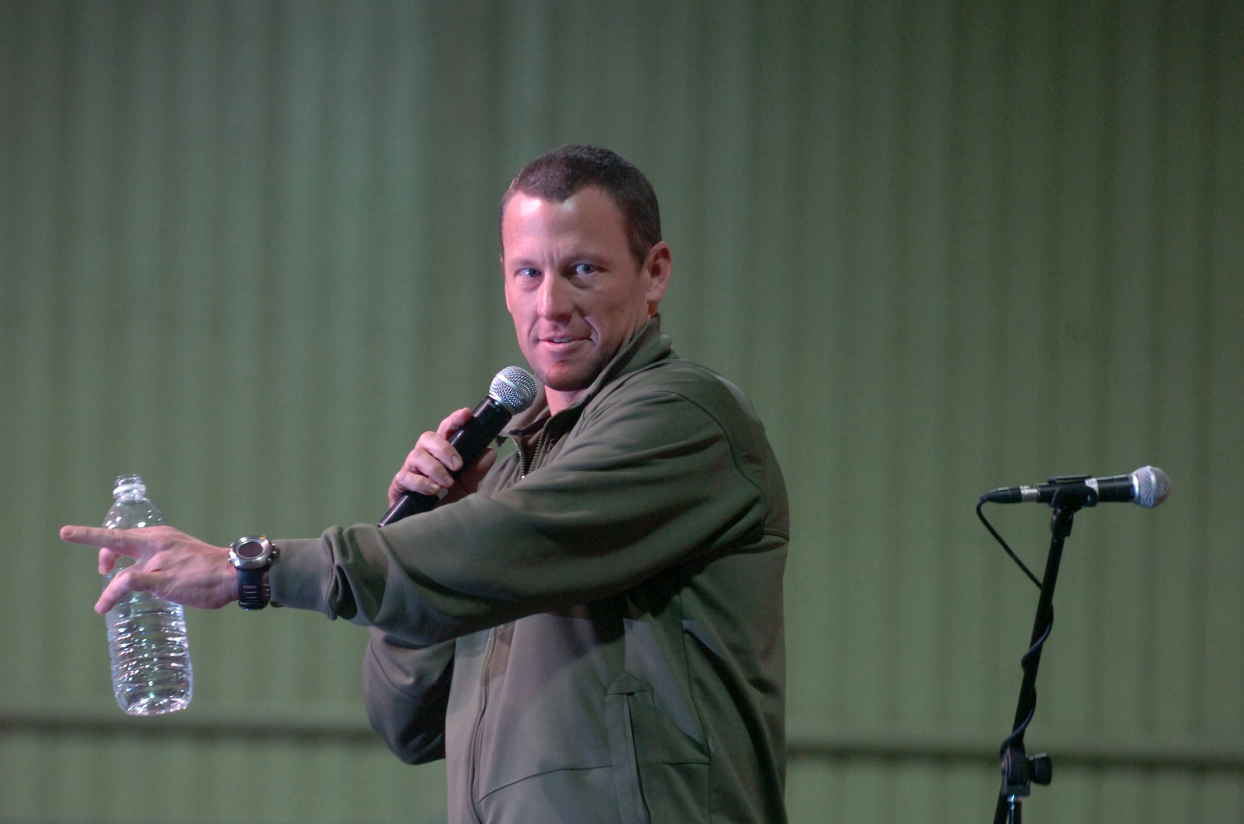 American cyclist Lance Armstrong giving a talk in 2007.